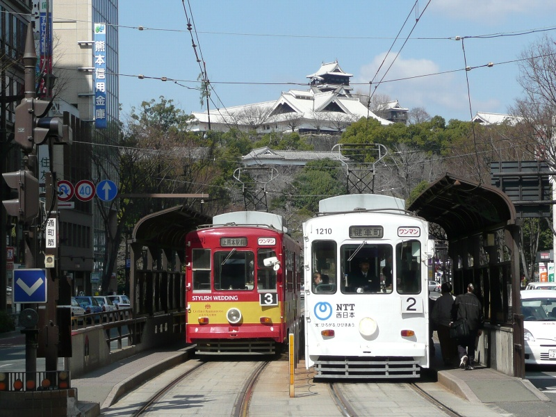 Tōrichō tram stop